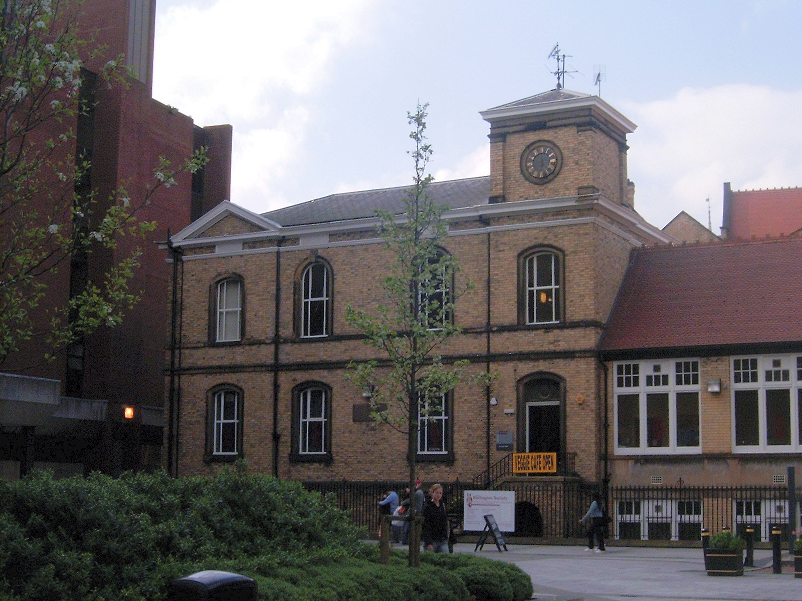 The Schunck Building/Lab (also known as the Burlington Rooms) at the University of Manchester, England. The structure is a Grade II listed building. It was built in Kersal as the private laboratory of Edward Schunck and after his death dismantled and re-erected in Burlington Street, Chorlton-on-Medlock, next to the other chemical laboratories of the university.